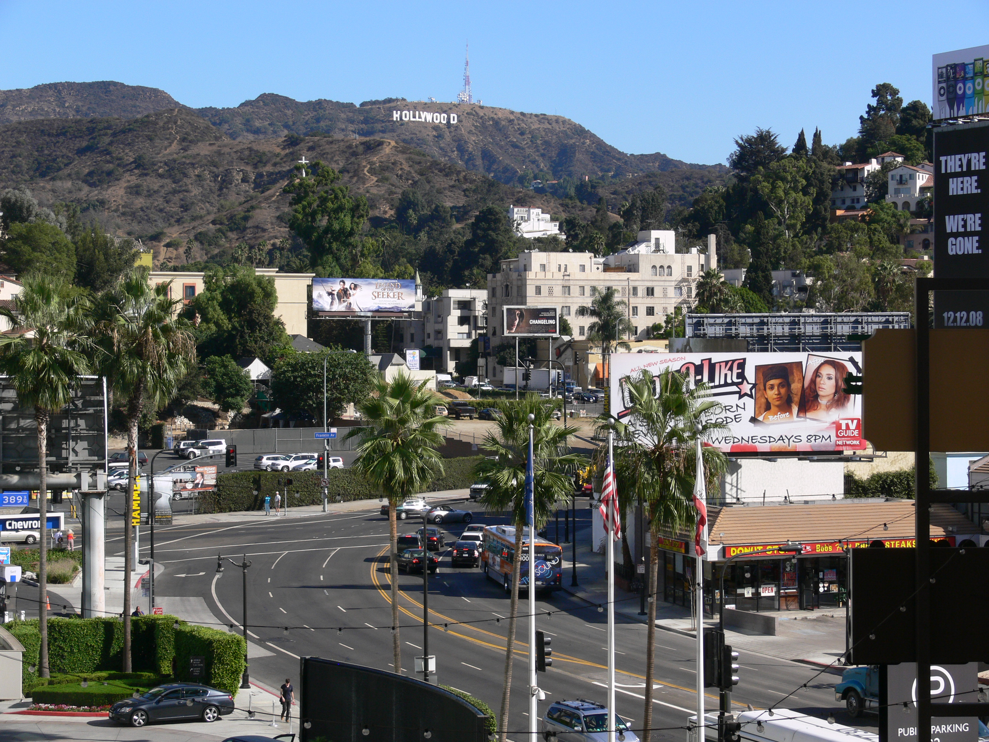 North Highland Avenue and Hollywood Sign, Los Angeles, California